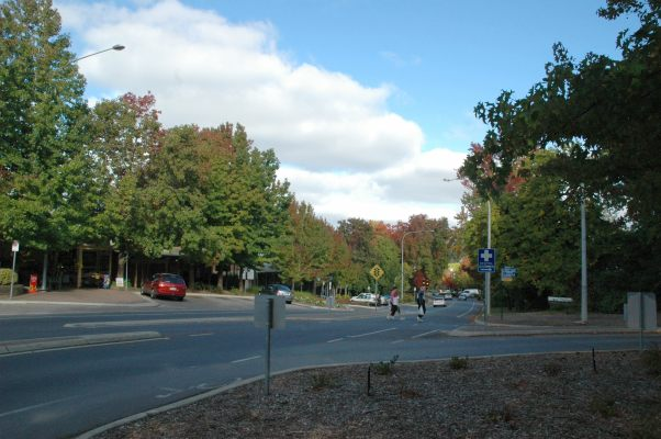 Photo of the Stirling main street (Mount Barker road) taken by Mel Mazzone in April 2006 (Autumn)